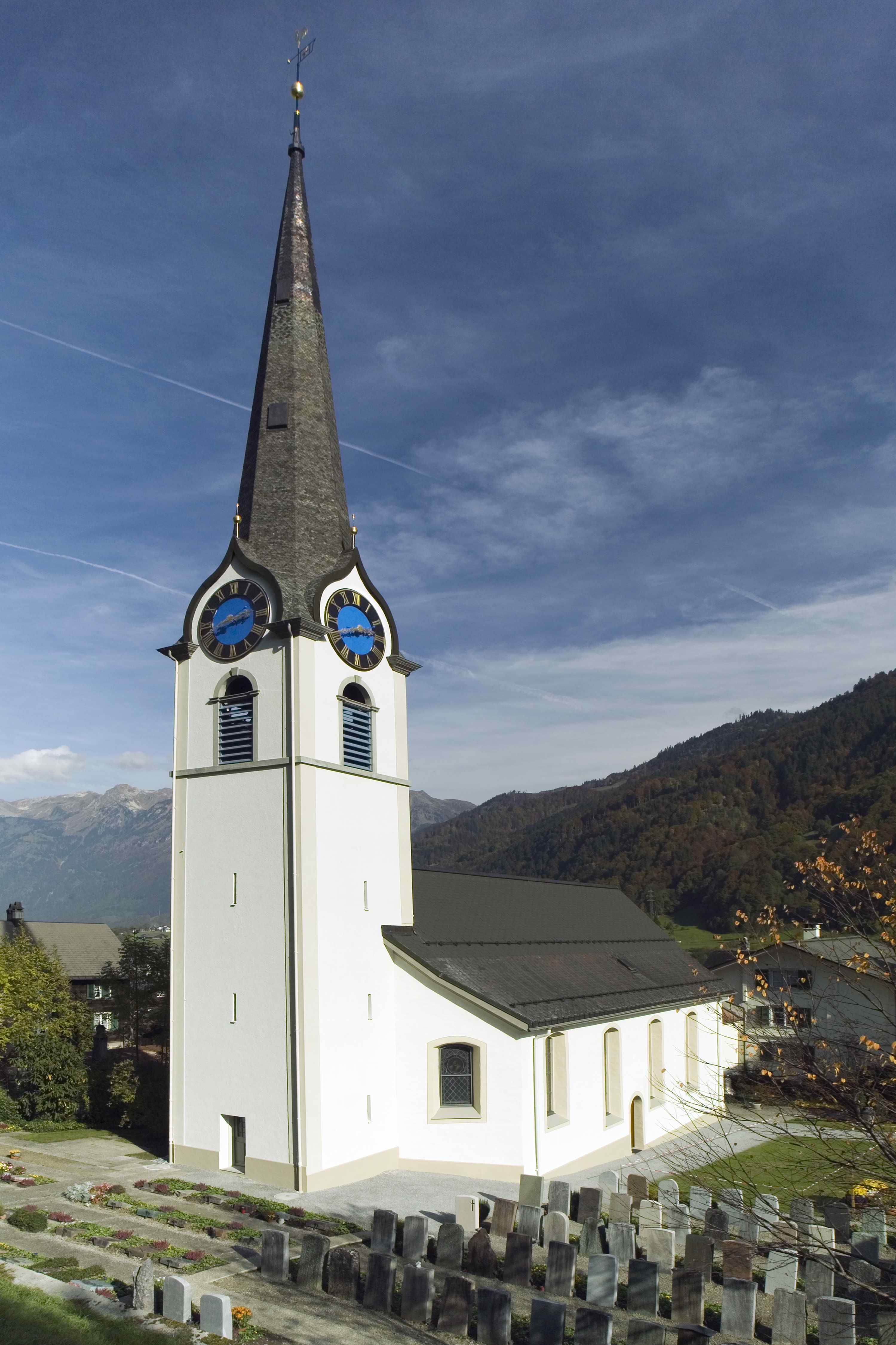 Tower and cemetery of the Reformed Church in Luchsingen GL, Switzerland